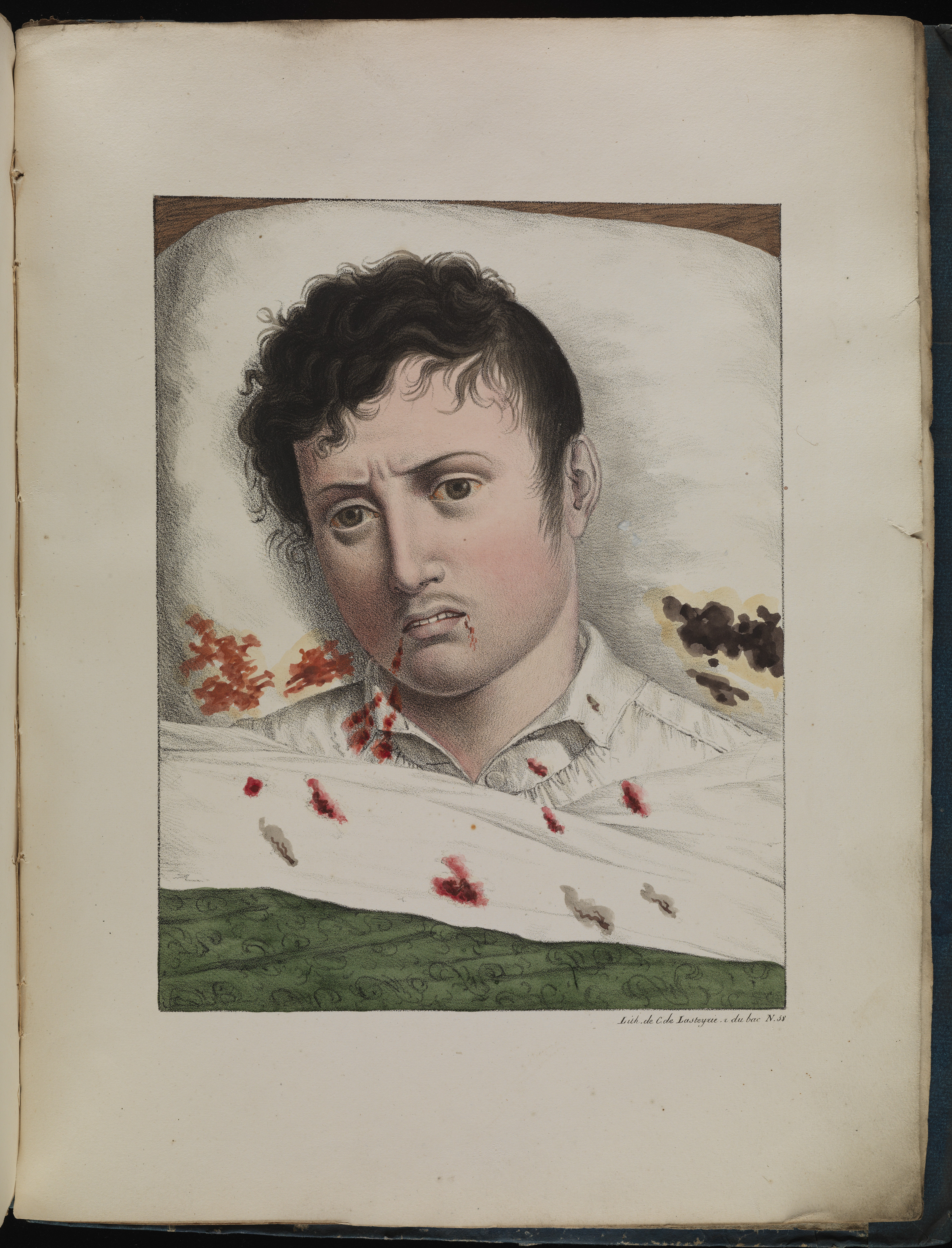 Plate four of four plates showing the development of yellow fever. From the title: Observations sur la fièvre jaune, faites à Cadix, en 1819 / par MM. Pariset et Mazet. Authors: Etienne Pariset (1770-1847) and André Mazet (1793-1821). Rare Books Keywords: Yellow Fever